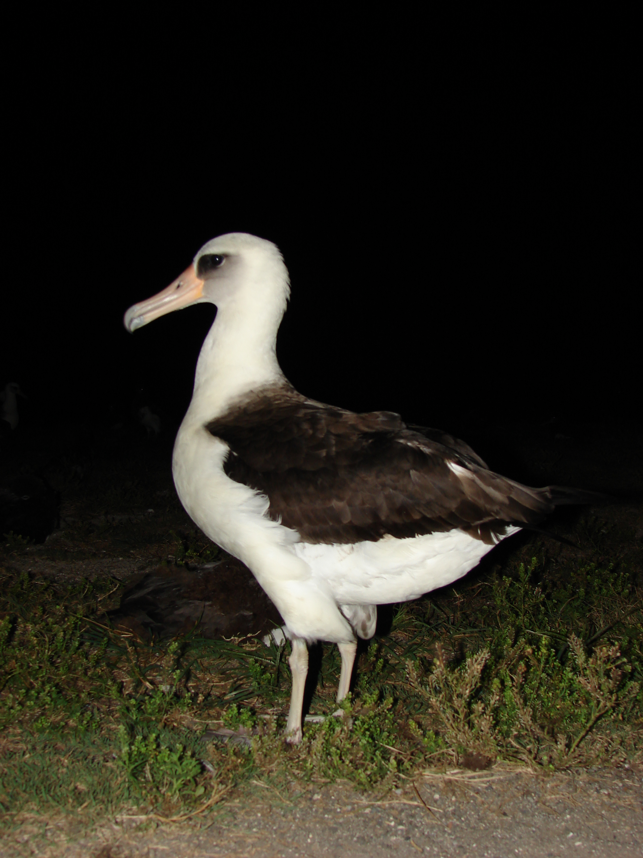 Medicago lupulina (habitat with Laysan albatross at night). Location: Midway Atoll, Clipper House Sand Island